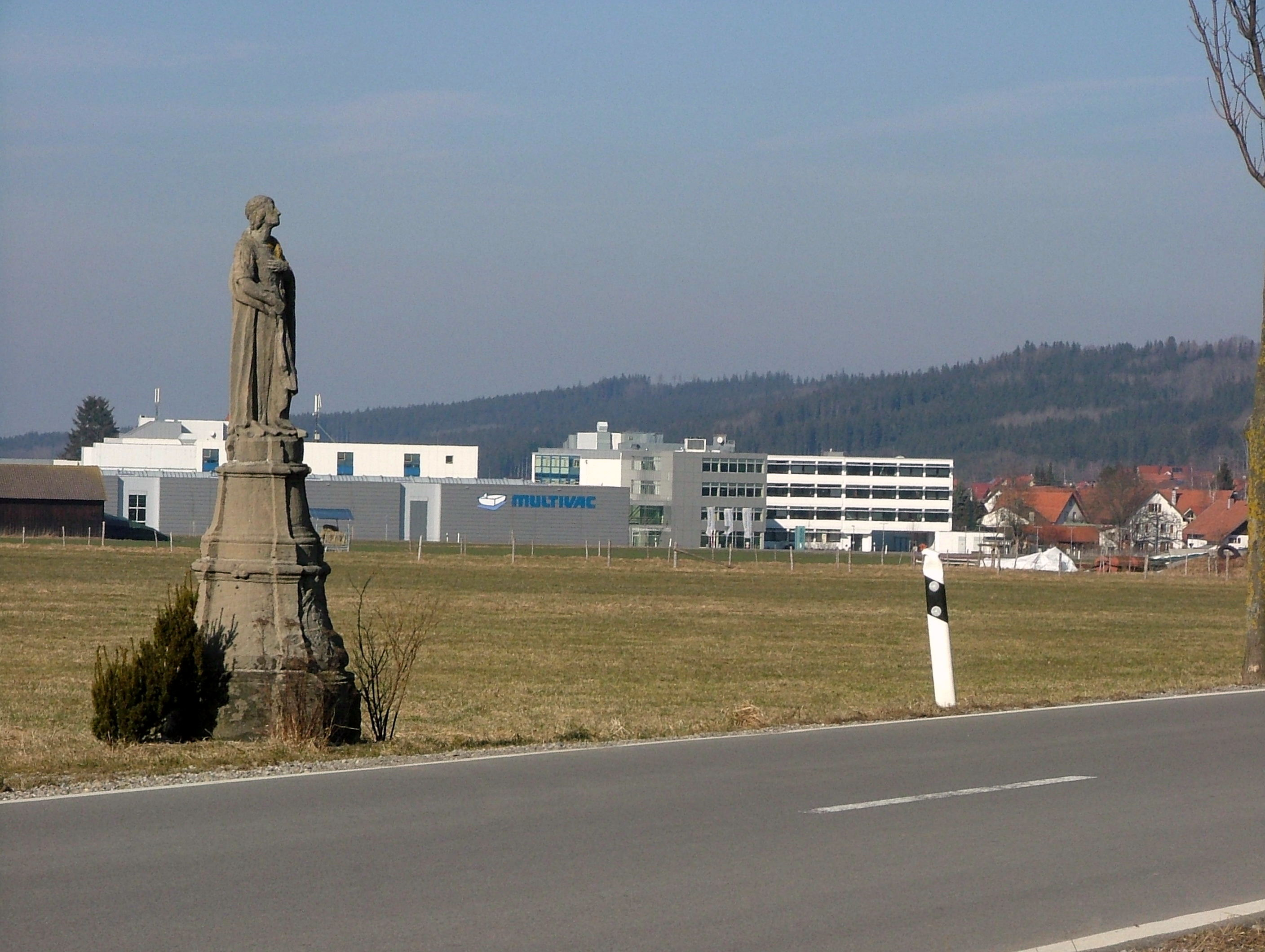 Multivac